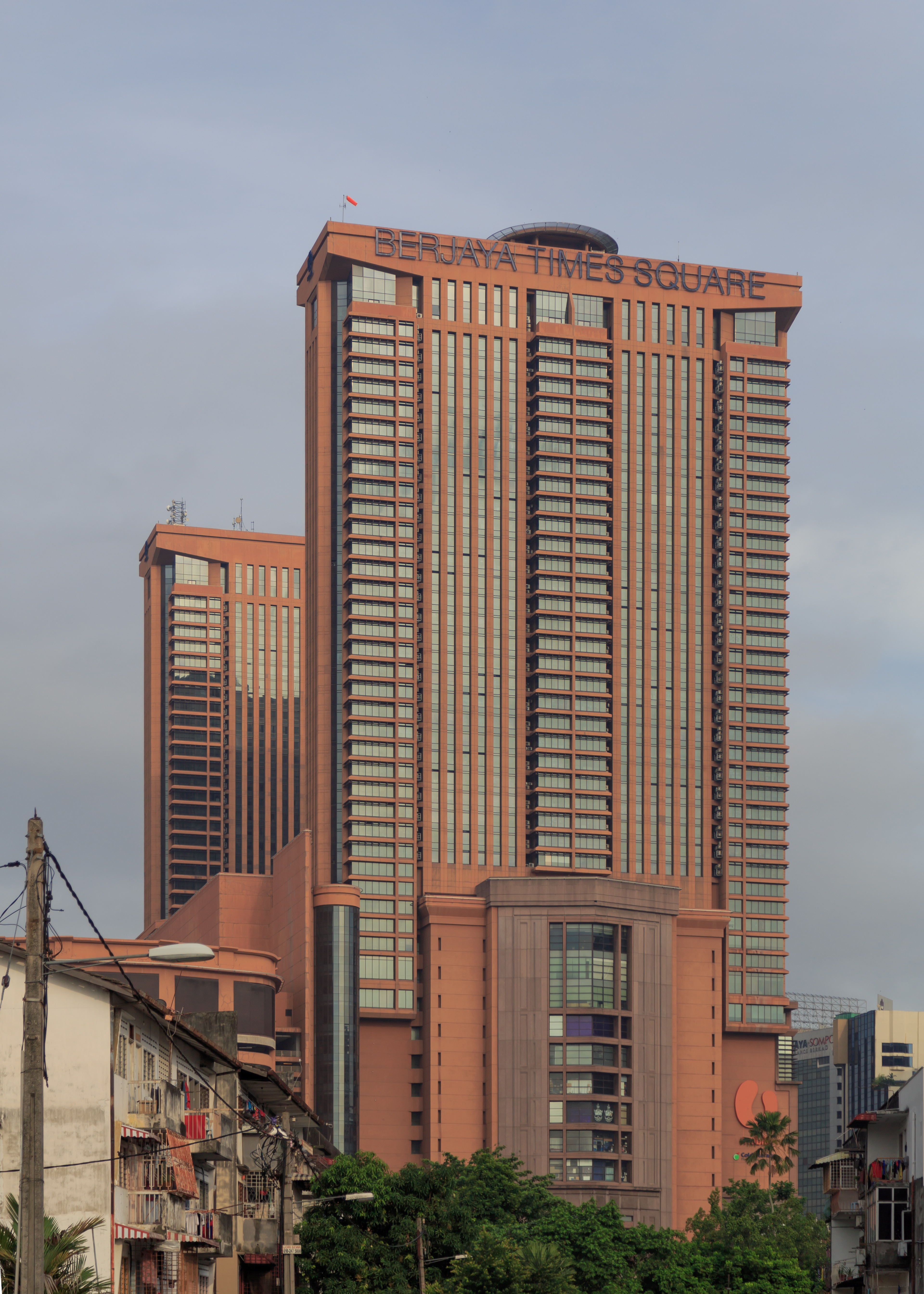 Kuala Lumpur, Malaysia: Berjaya Times Square